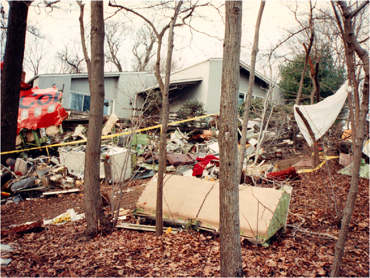 A view of the wreckage in front of the house of Sam Tissenbaum.